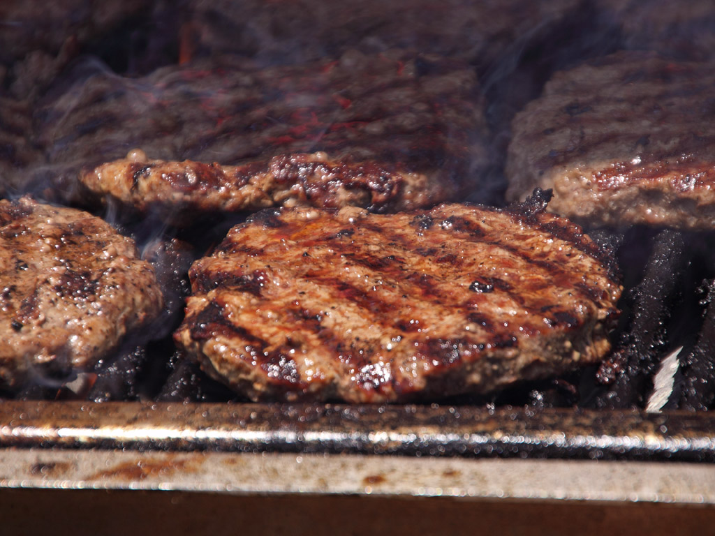 Some burgers grilling at the county fair.